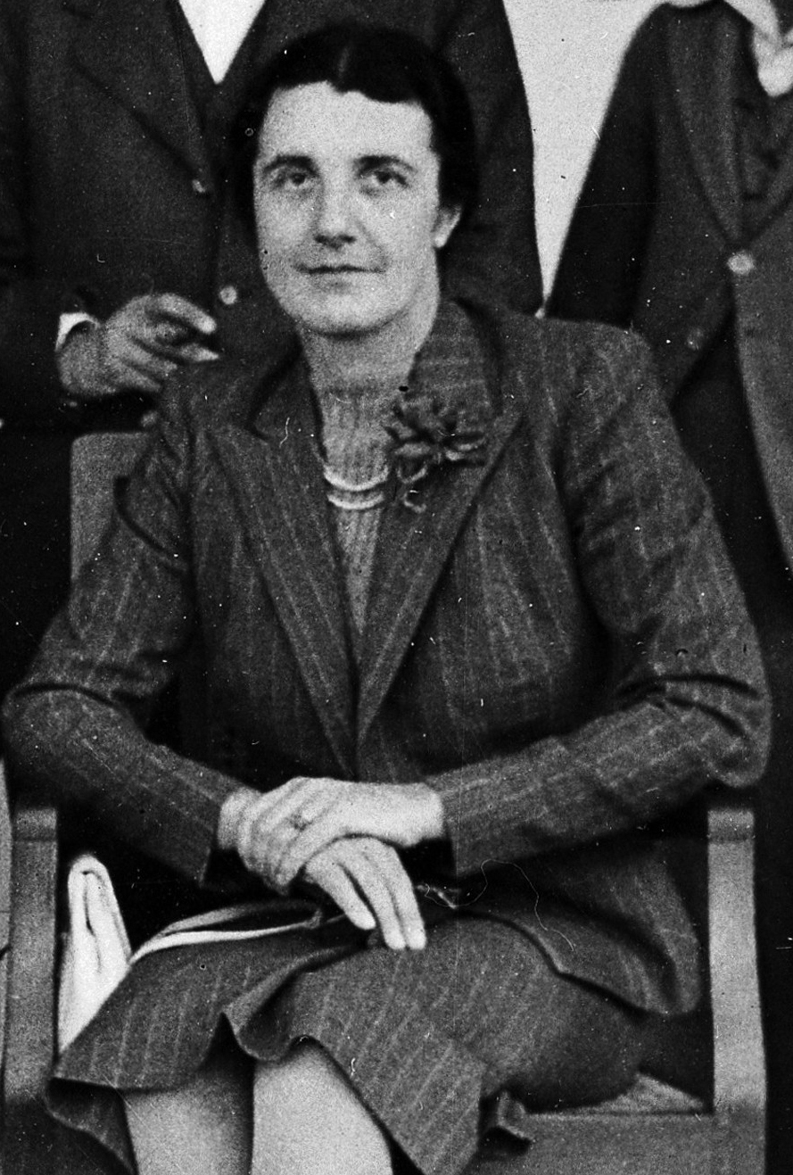 Janet Vaughan in Lahore, India